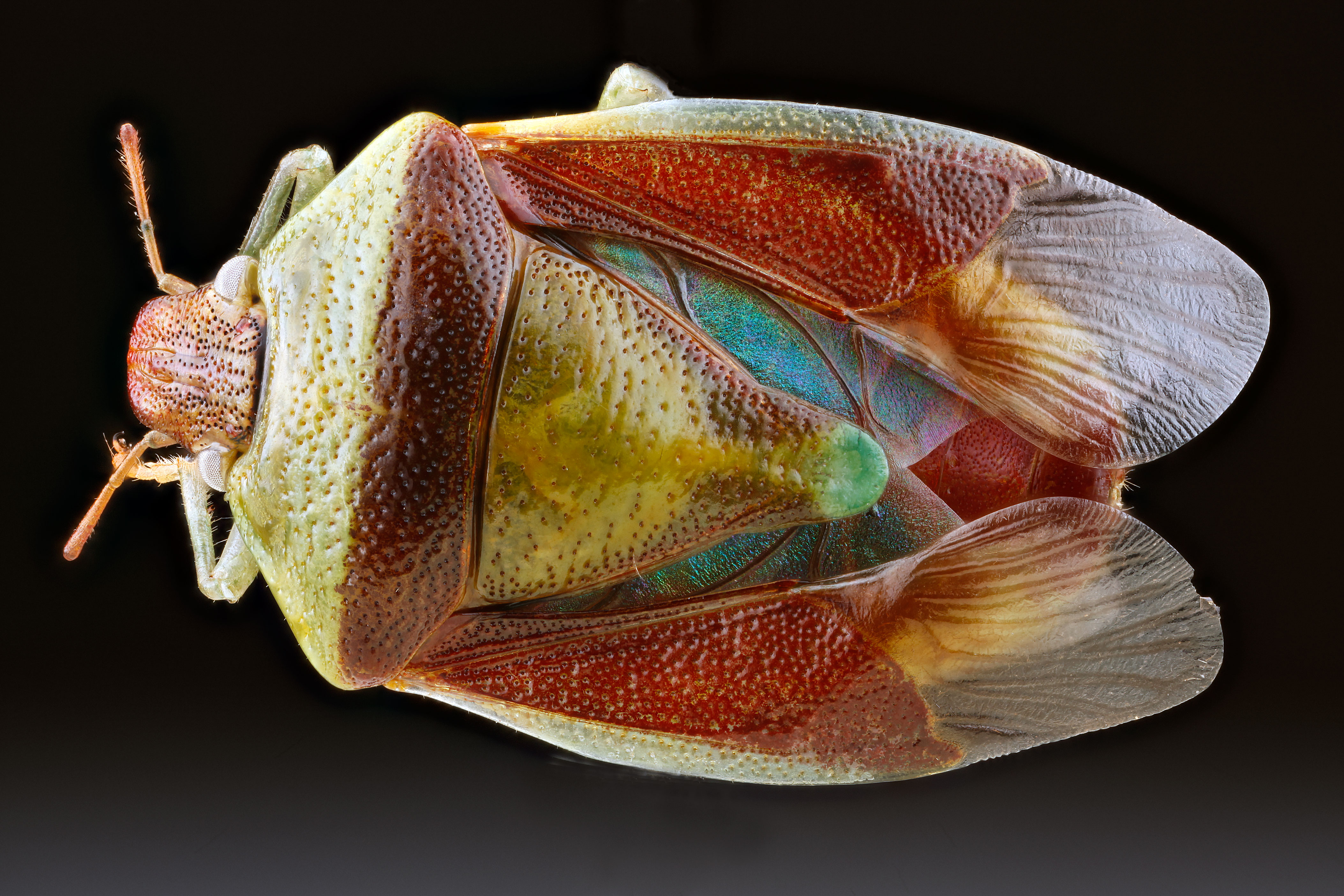 Banasa dimiata, Western Maryland, May 2012 - USGS Bee Inventory and Monitoring Laboratory - Photo was taken with a system developed by Dr. Anthony G Gutierrez - Focus stacking (using Zerene Stacker).